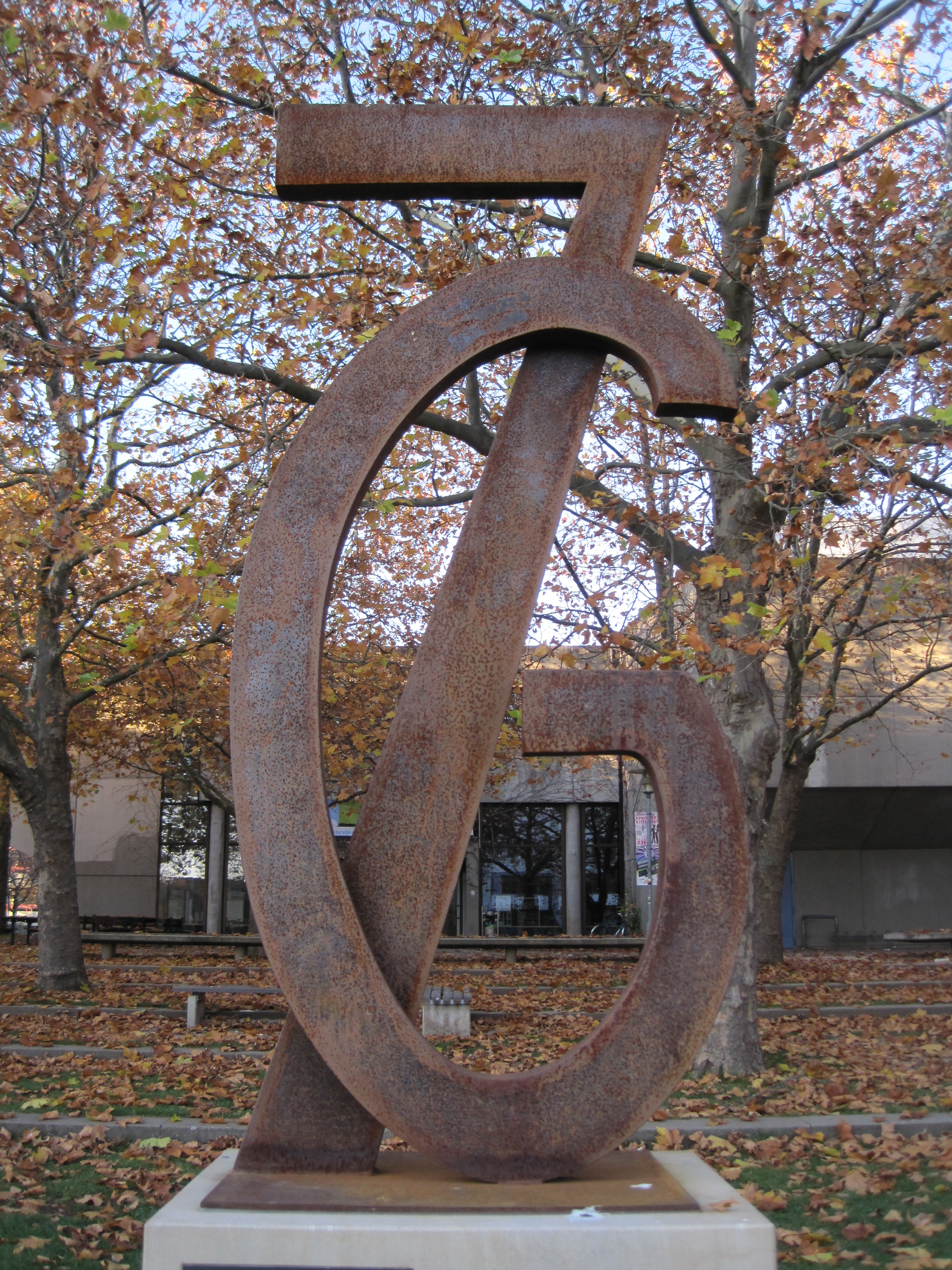 Sculpture (2011) by Günter Grass at Platz der Göttinger Sieben, Göttingen, Germany check usage